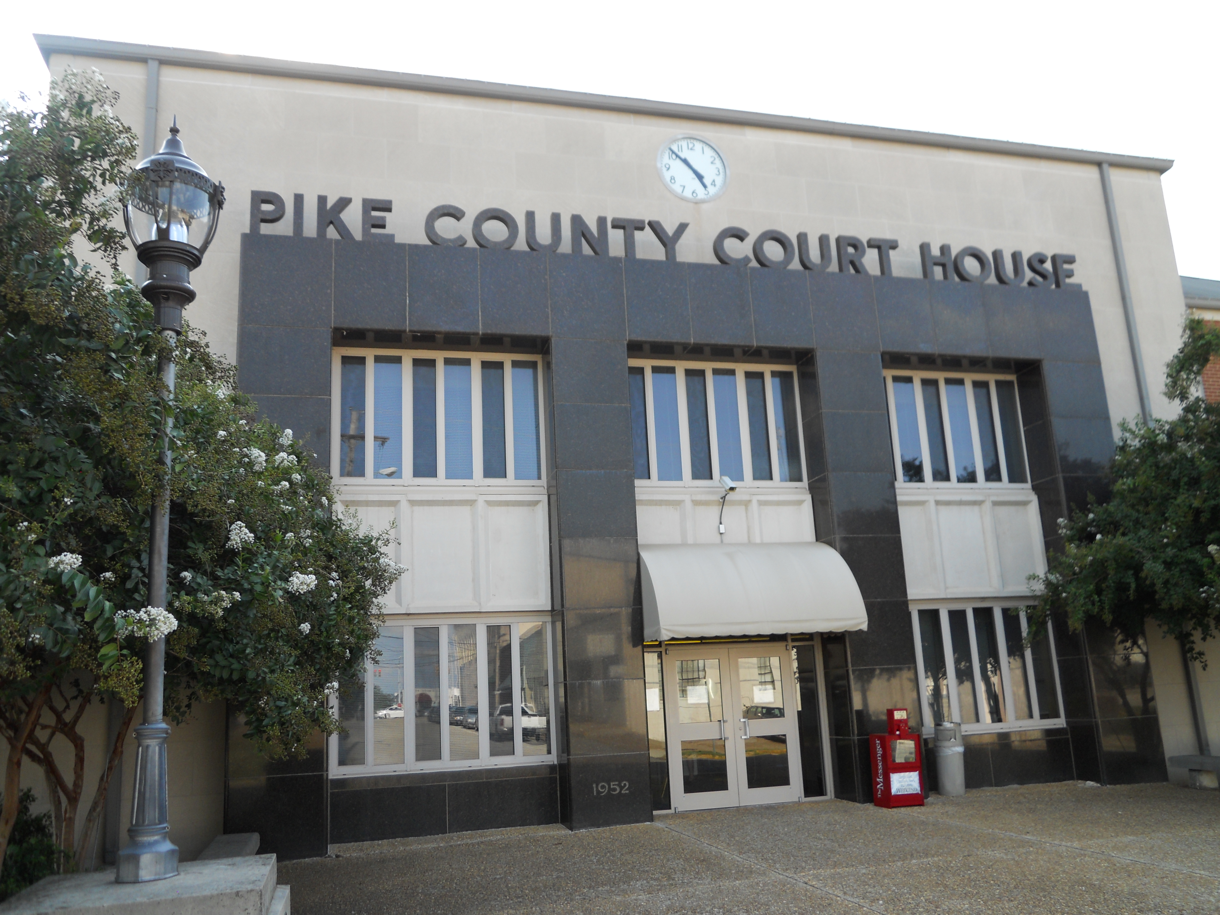 This is a photograph of the Pike County Courthouse located in Troy, Alabama.